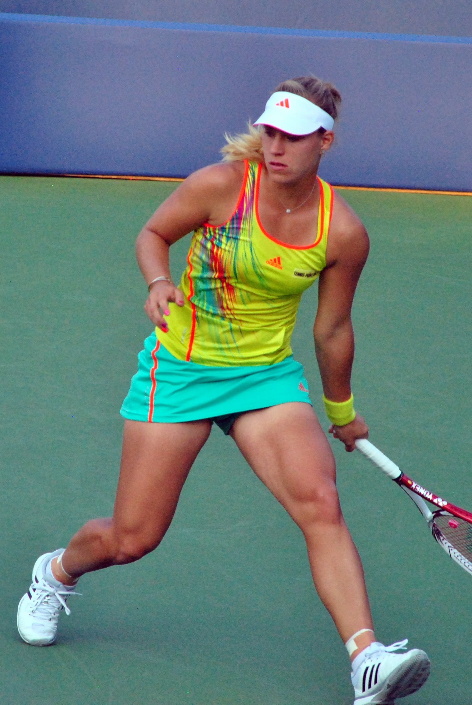 Angelique Kerber at the 2012 US Open